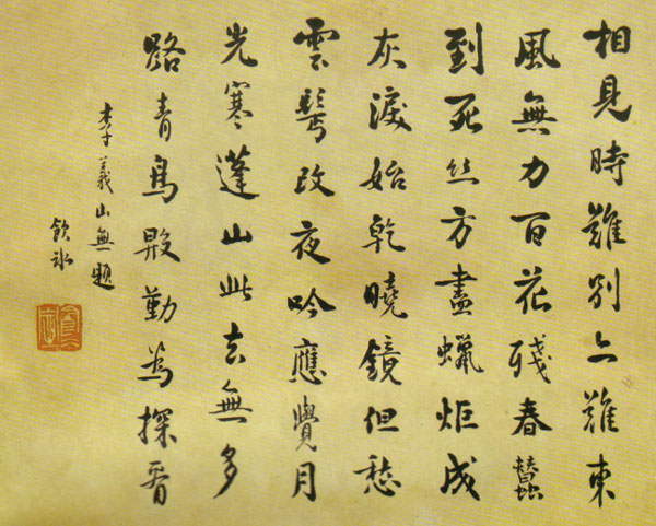 the scan image of Liang Qichao' handwriting